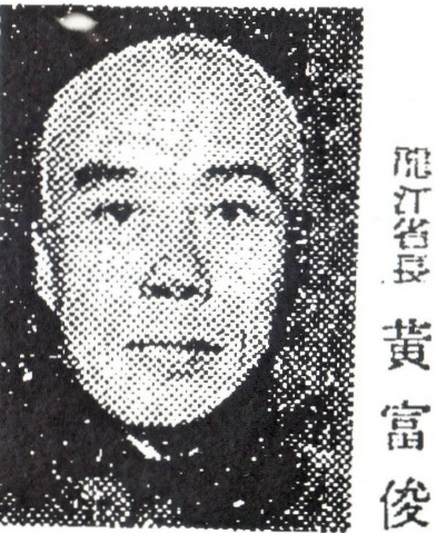 Huang Fujun (Huang Fu-qün) (1890 - ?)